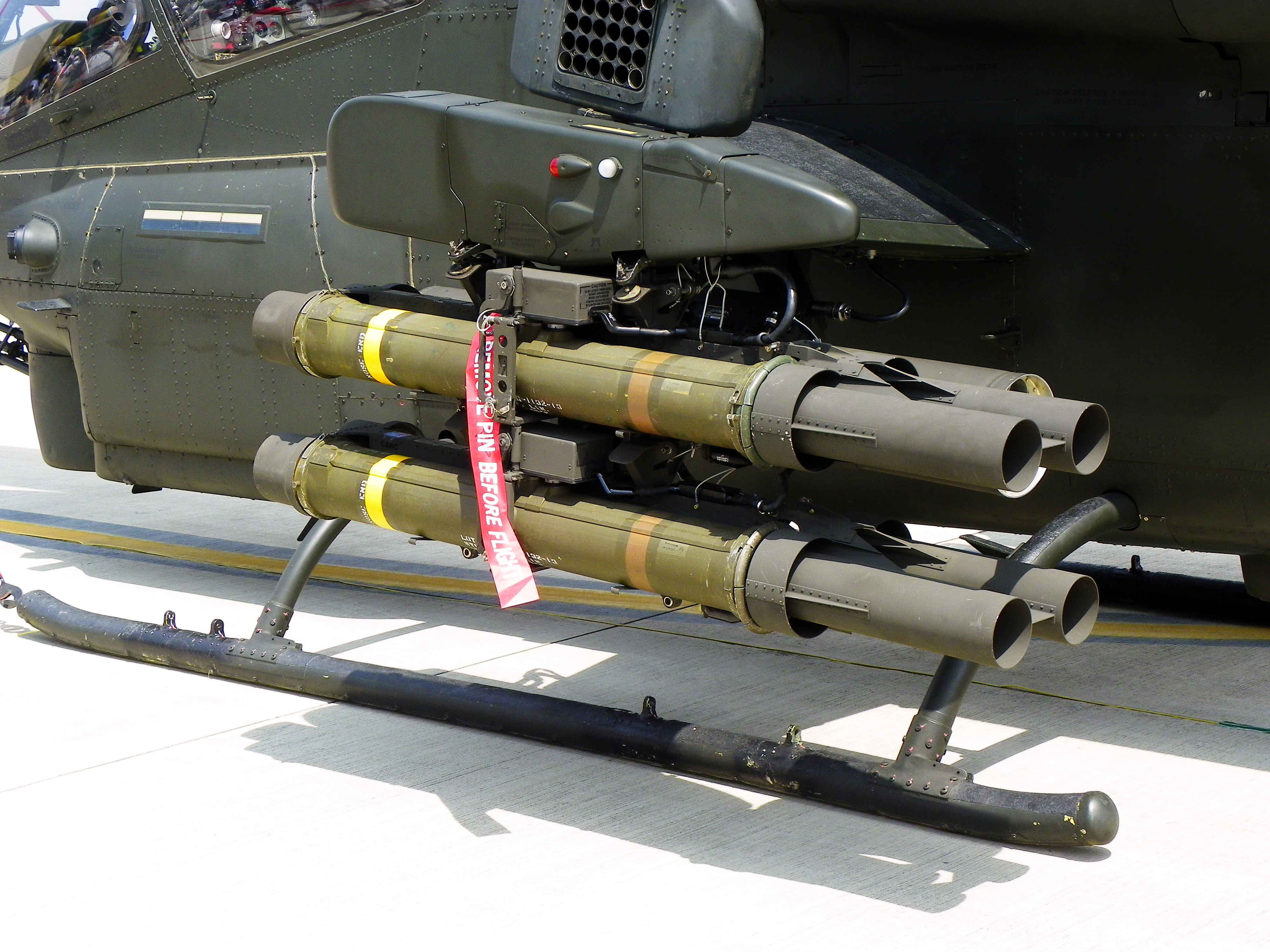 Chinese ROC Army AH-1W attack helicopters set point outside the XM65 port side-mounted TOW four missile launchers, taken in 2011 Songshan Air Force Base camp opening activities.